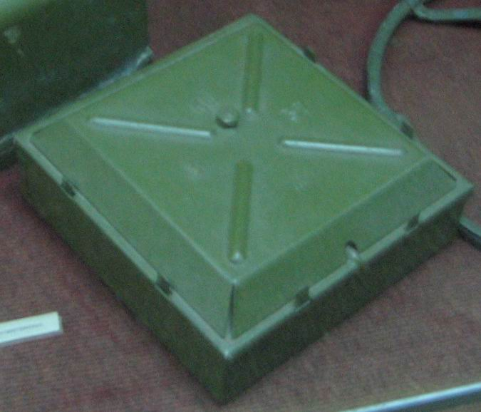 Soviet TM-35 anti-tank mine, displayed at the Museum of Heroic Defense and Liberation of Sevastopol on Sapun Mountain in Sevastopol.